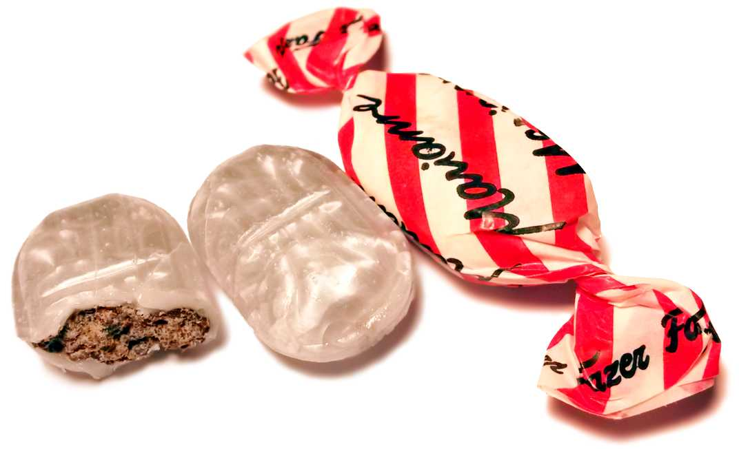 Regular Marianne candy with a brittle chocolate filling. Has a hard and silvery peppermint candy coating. Manufactured by finnish food company Fazer Makeiset Oy.